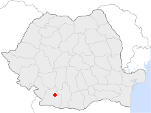 Location of Craiova in Romania.